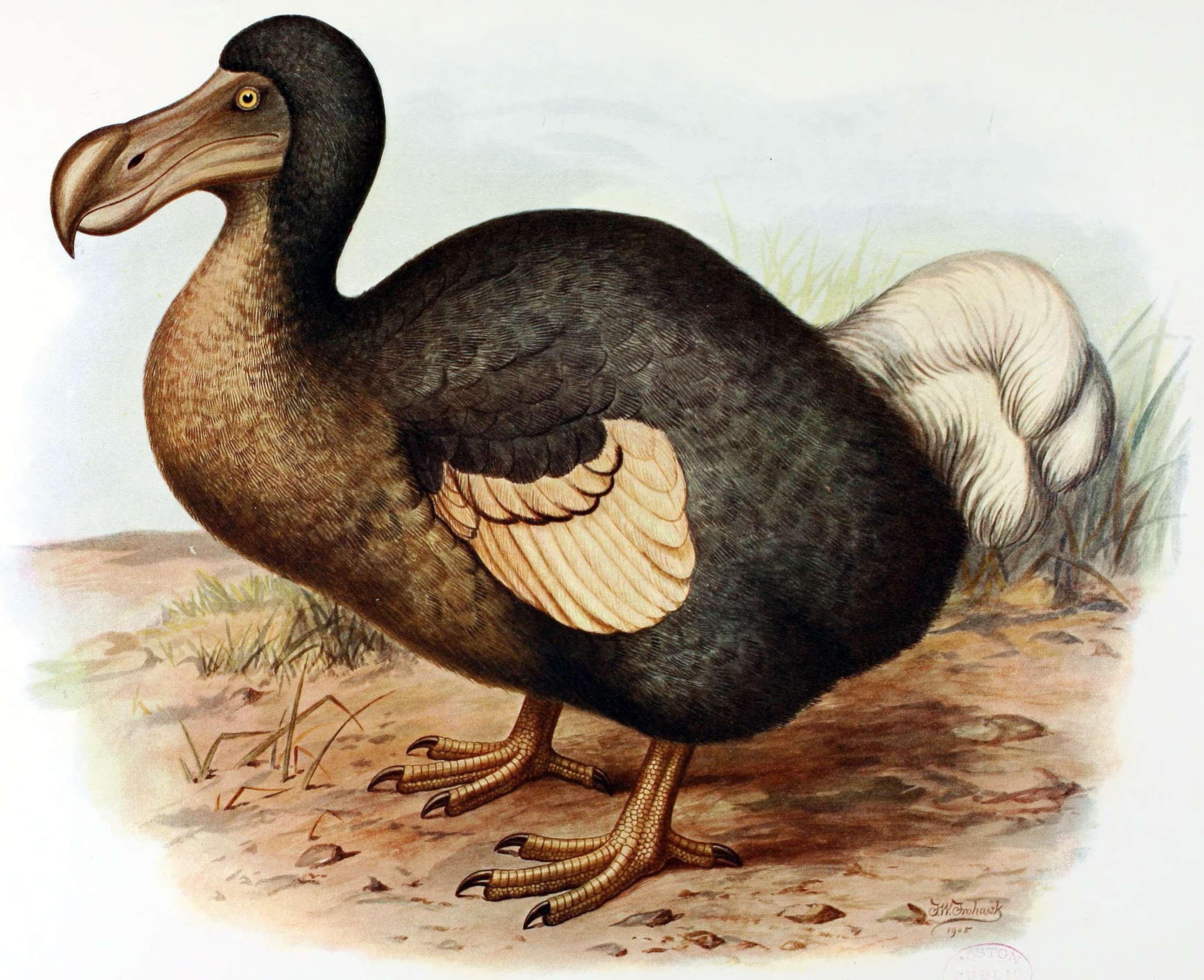 Plate 24 from Rothschild's Extinct birds (1907). The dodo (Raphus cucullatus) was a flightless bird endemic to the Indian Ocean island of Mauritius. This was based on the picture by Roelandt Savery in Berlin, but the wings, tail and bill have been based partly on Pierre Witthoos' picture of the white Dodo, and partly from anatomical examination.